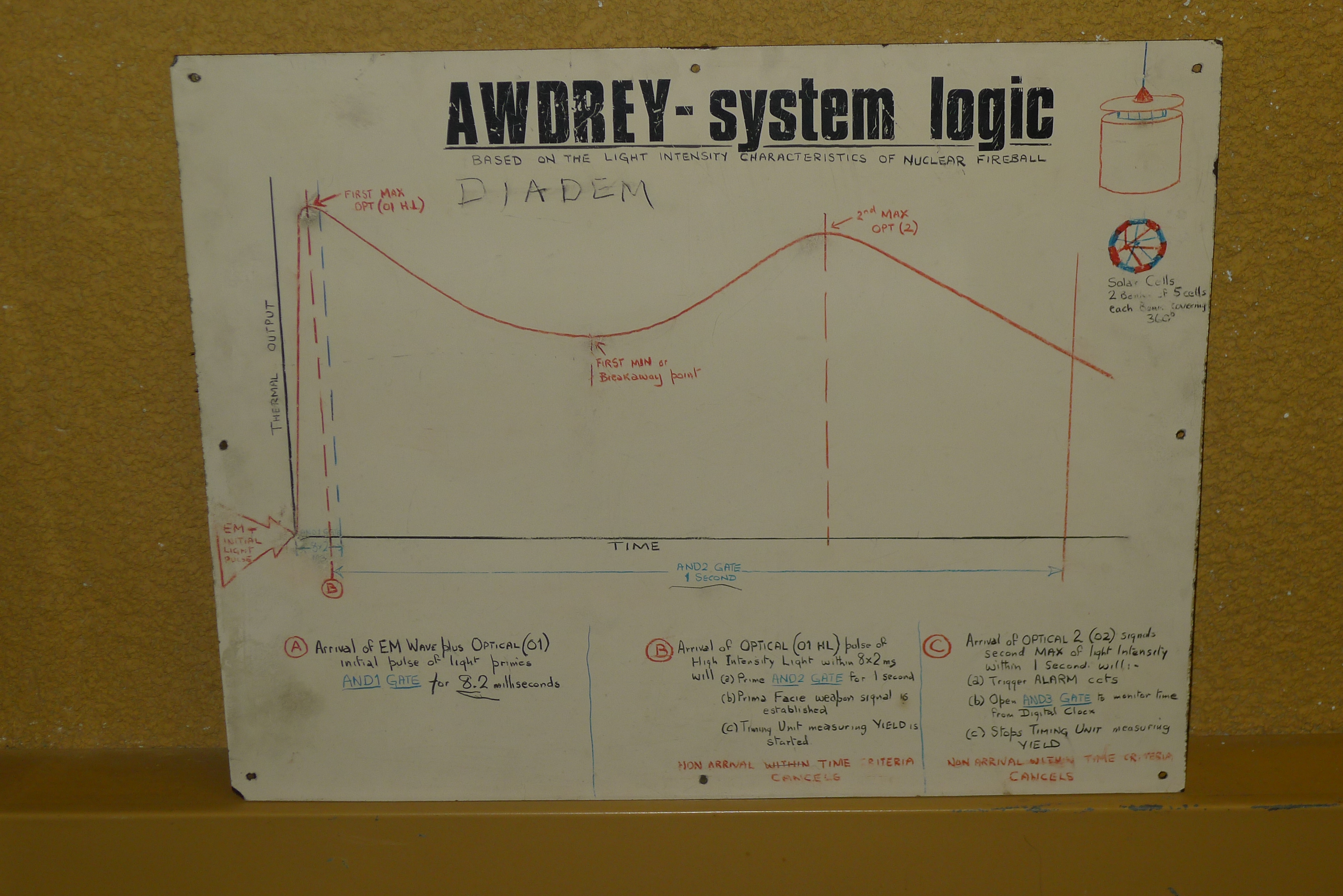 Awdrey Logic and Timing cycle on display at the York site.